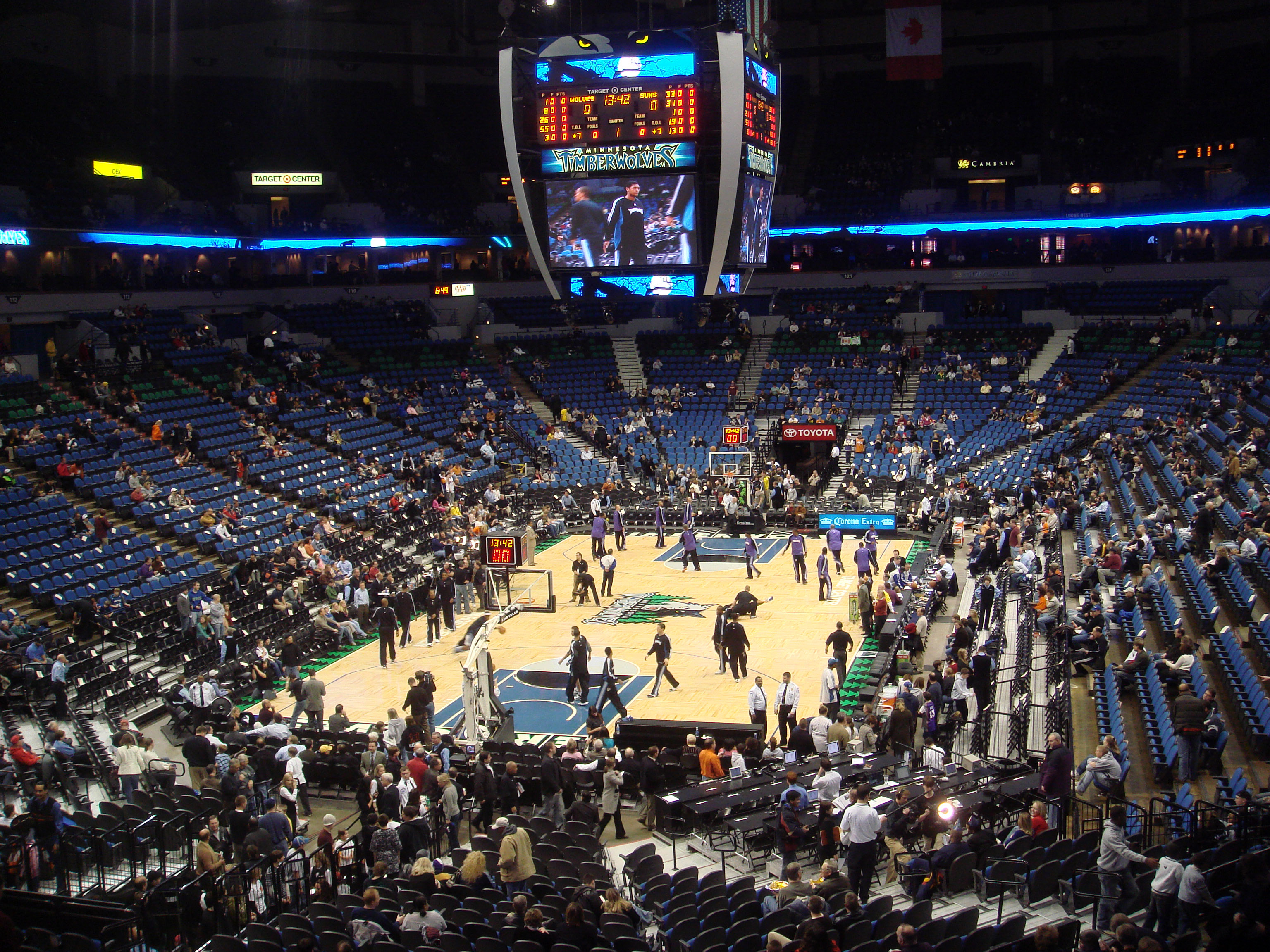 Target Center arena in Minneapolis, Minnesota; pre-game warm-ups before a 2007-08 NBA season game between the Minnesota Timberwolves and the Phoenix Suns. The Wolves would win, 117–107.